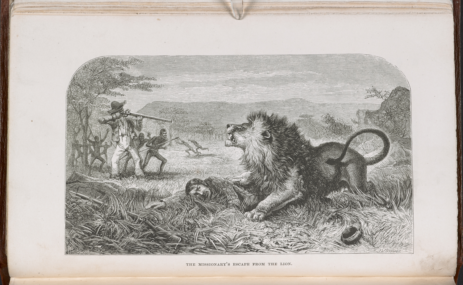 Illustration, wood engraving from David Livingstone's "Missionary Travels and Researches in South Africa"